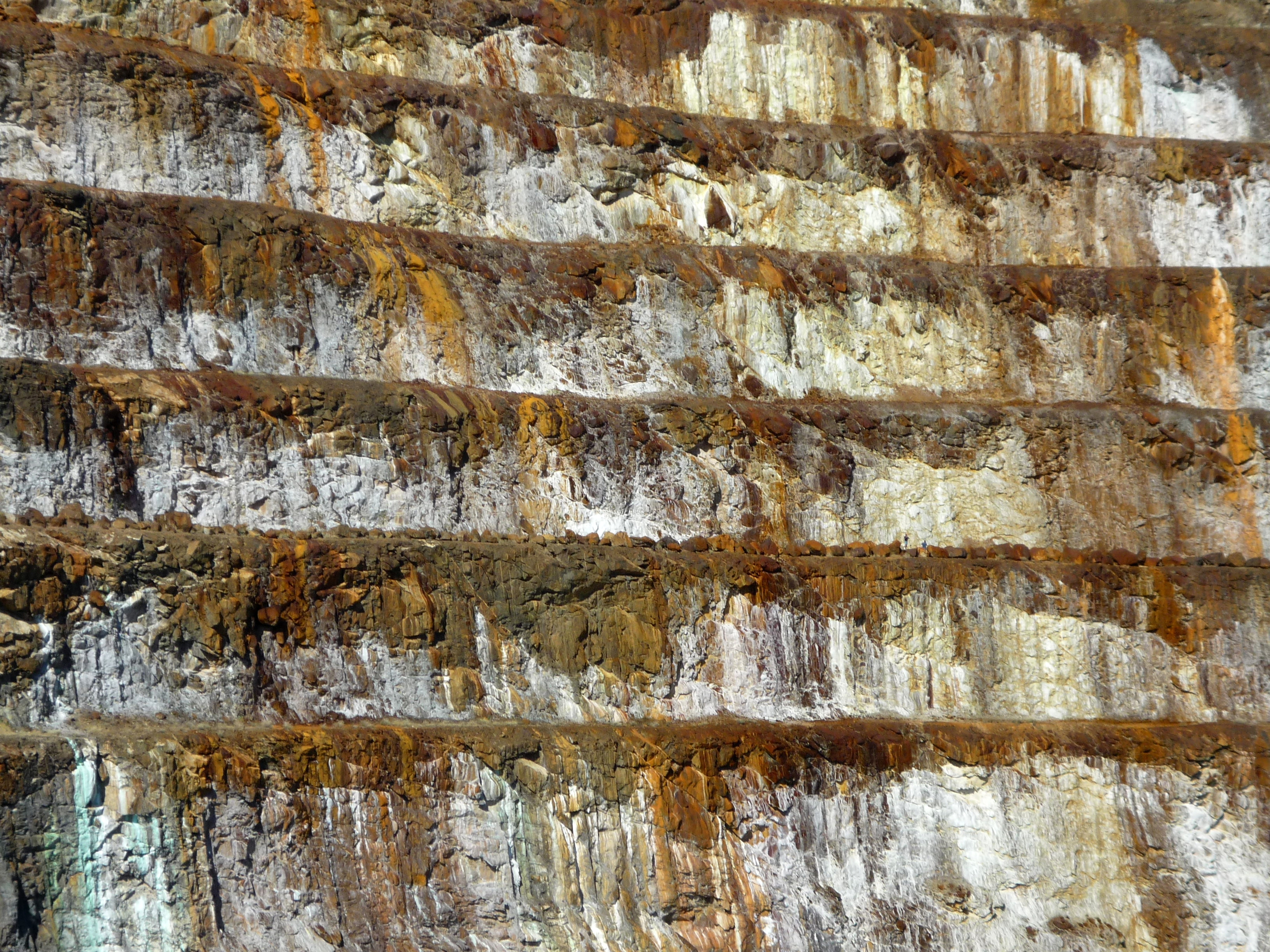 Photo of Mary Kathleen Mine close-up. Two people can be seen on the second terrace (from the bottom of the image) to the right of the image.